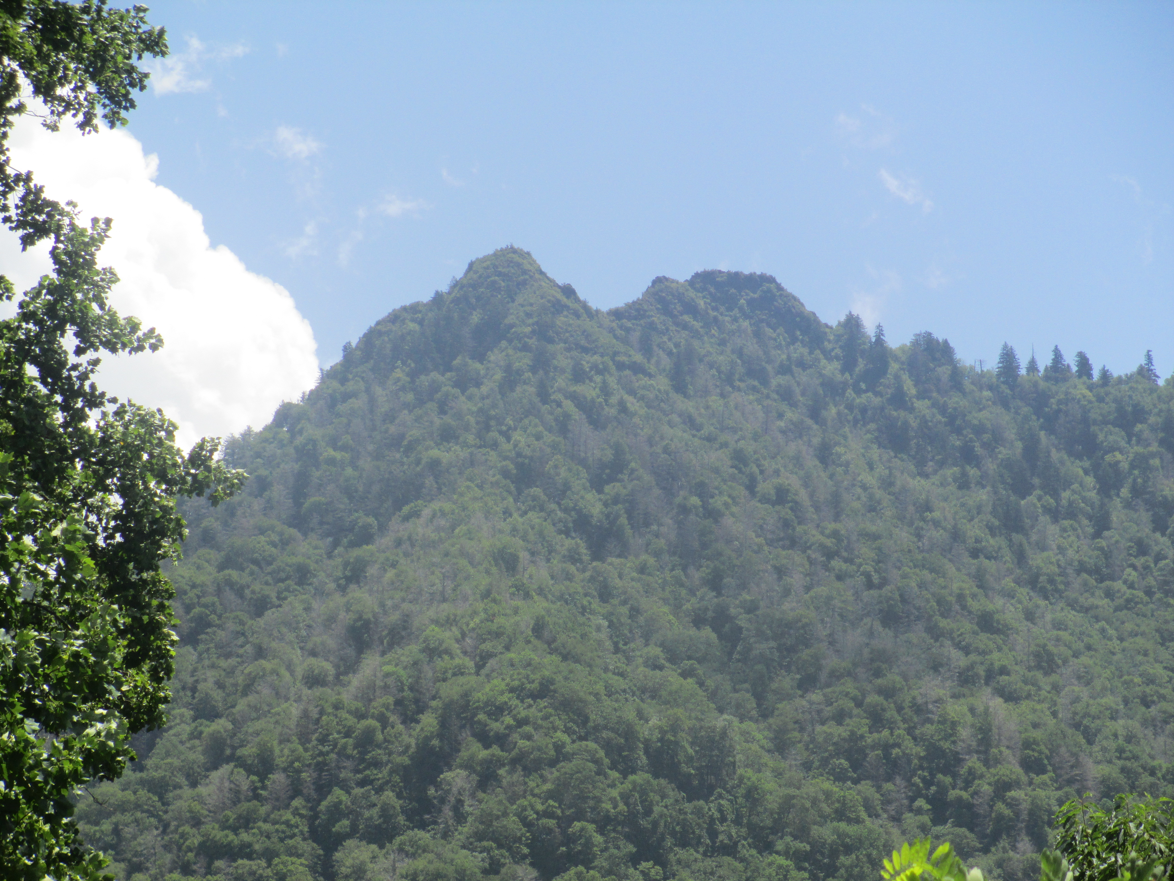 I took photo of Chimney Tops peaks in Great Smoky Mountains National Park, with Canon camera.